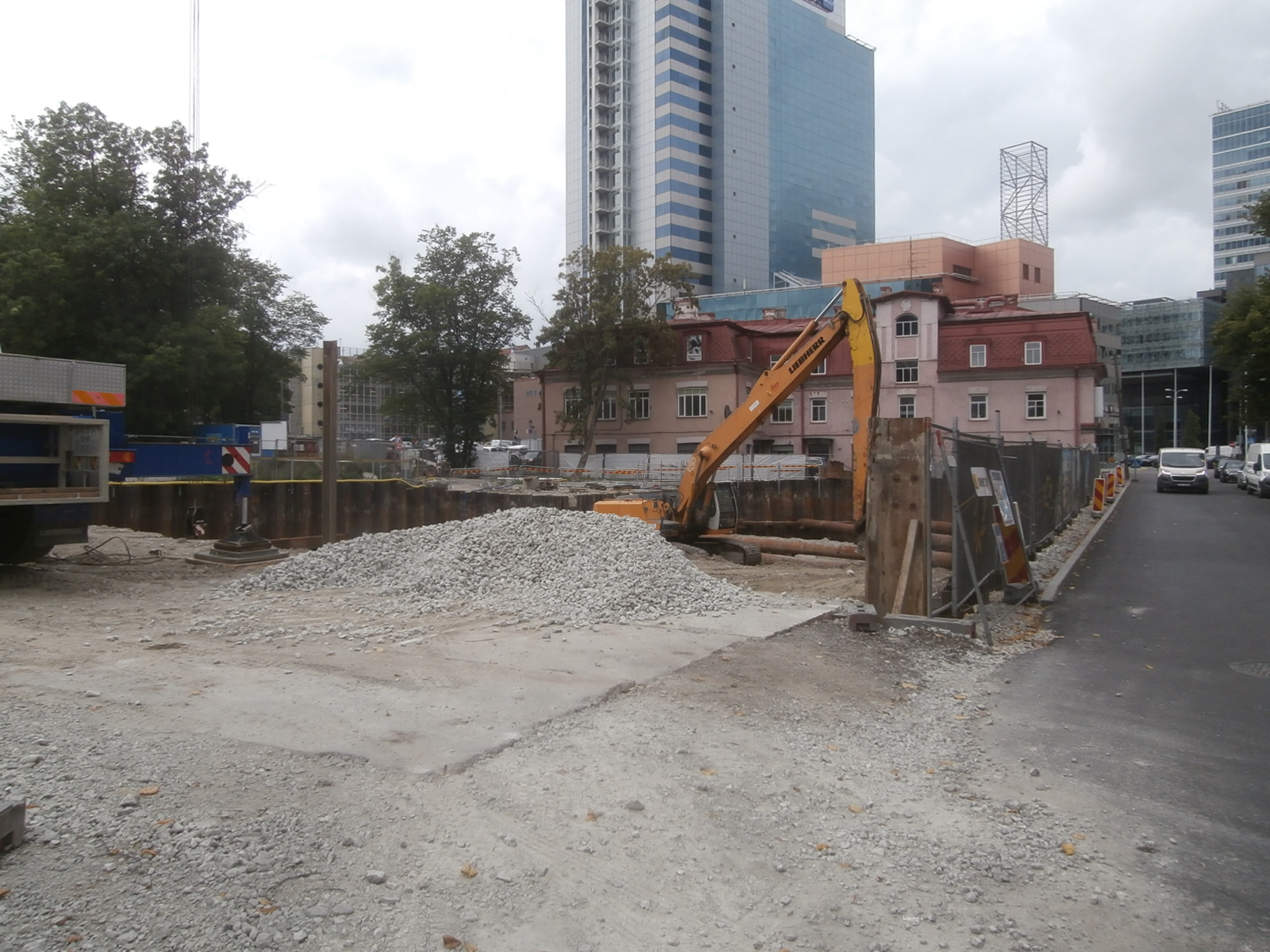 Skyon under construction, Maakri, Tallinn 21 August 2019